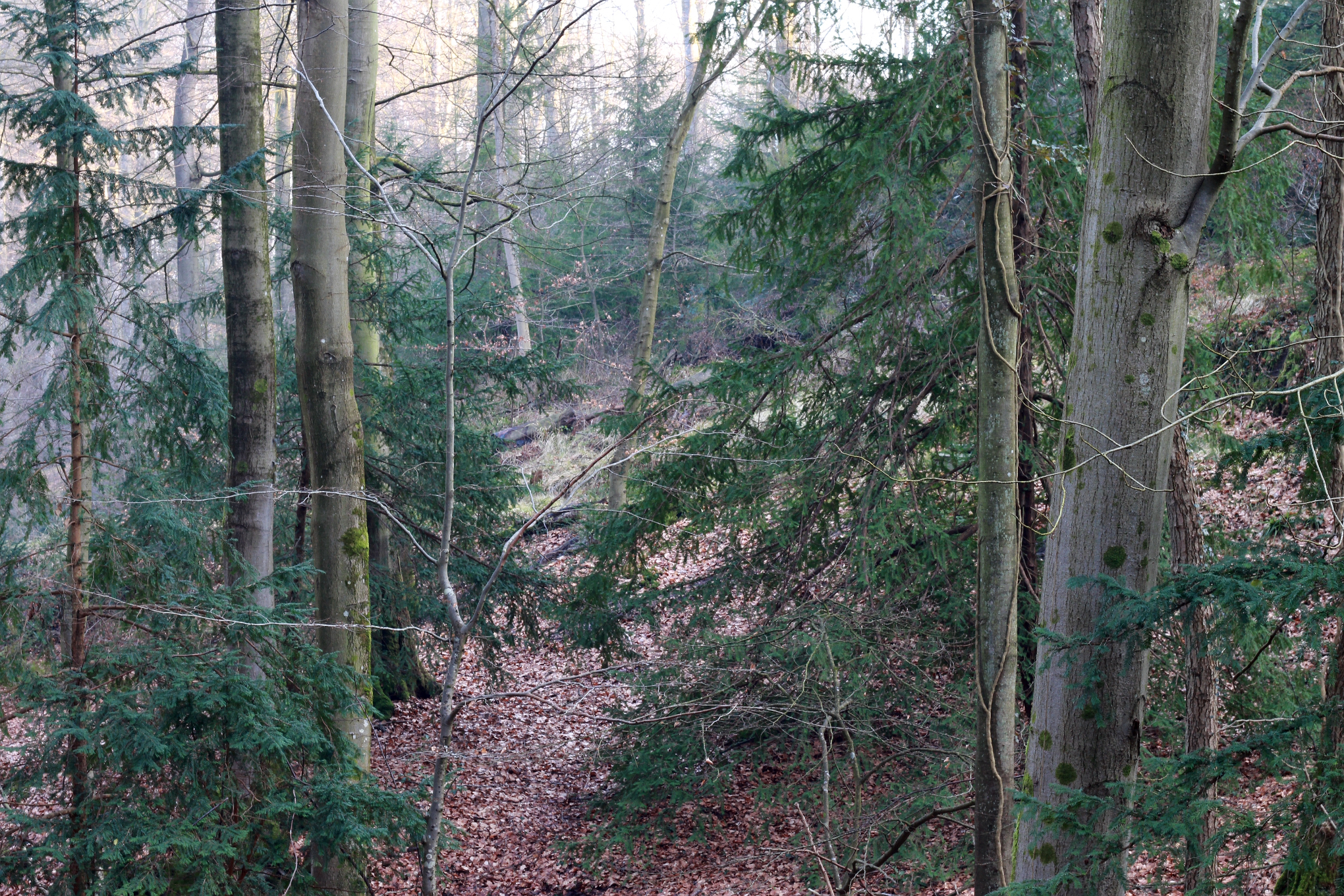 Taxus baccata in the species' only known spontaneous habitat in Denmark at Munkebjerg, near Vejle.